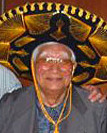 Dr. Tomisaku Kawasaki at the 8th International Kawasaki Disease Symposium, 2005.